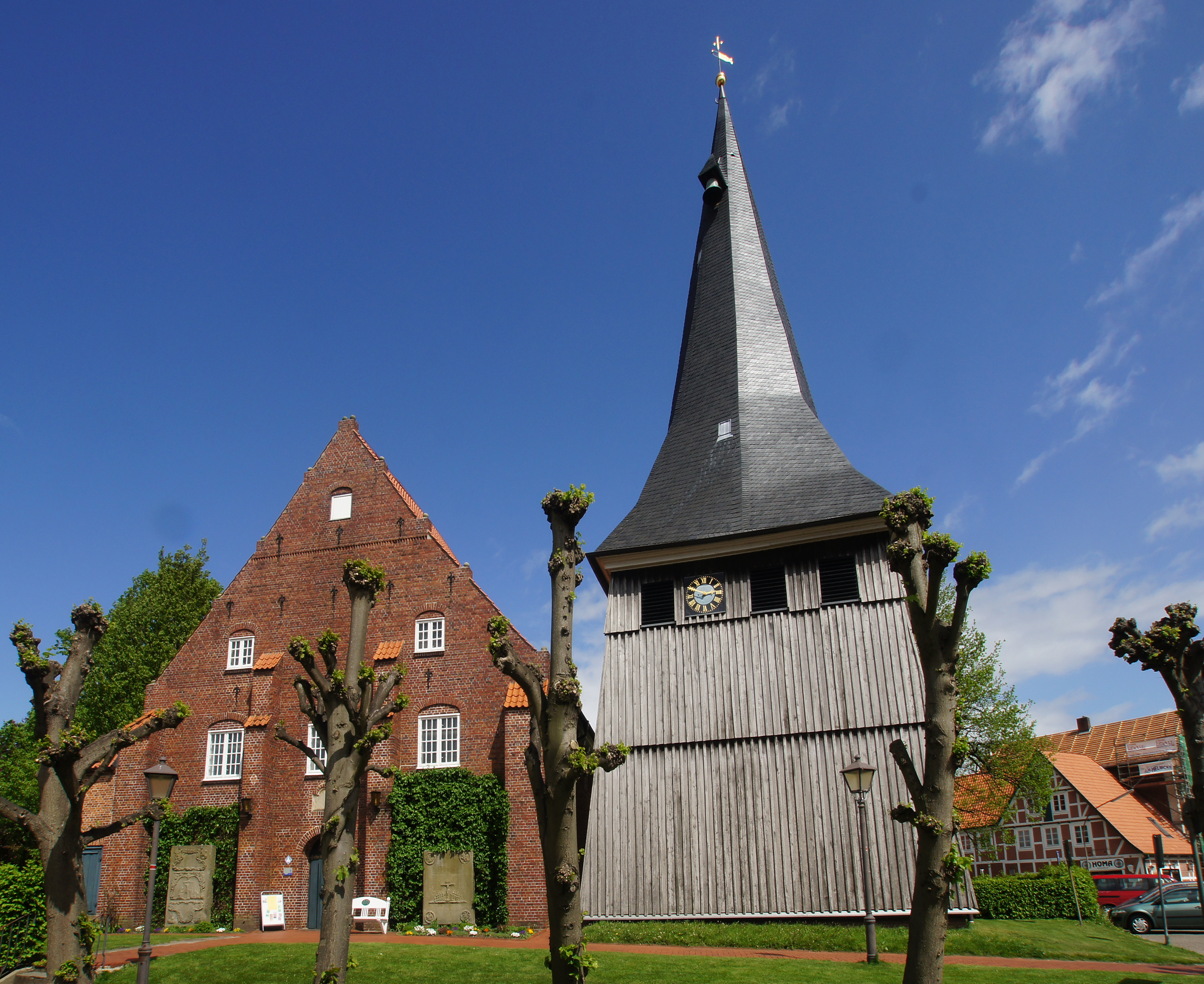 Jork, Germany: Saint Matthias' Church